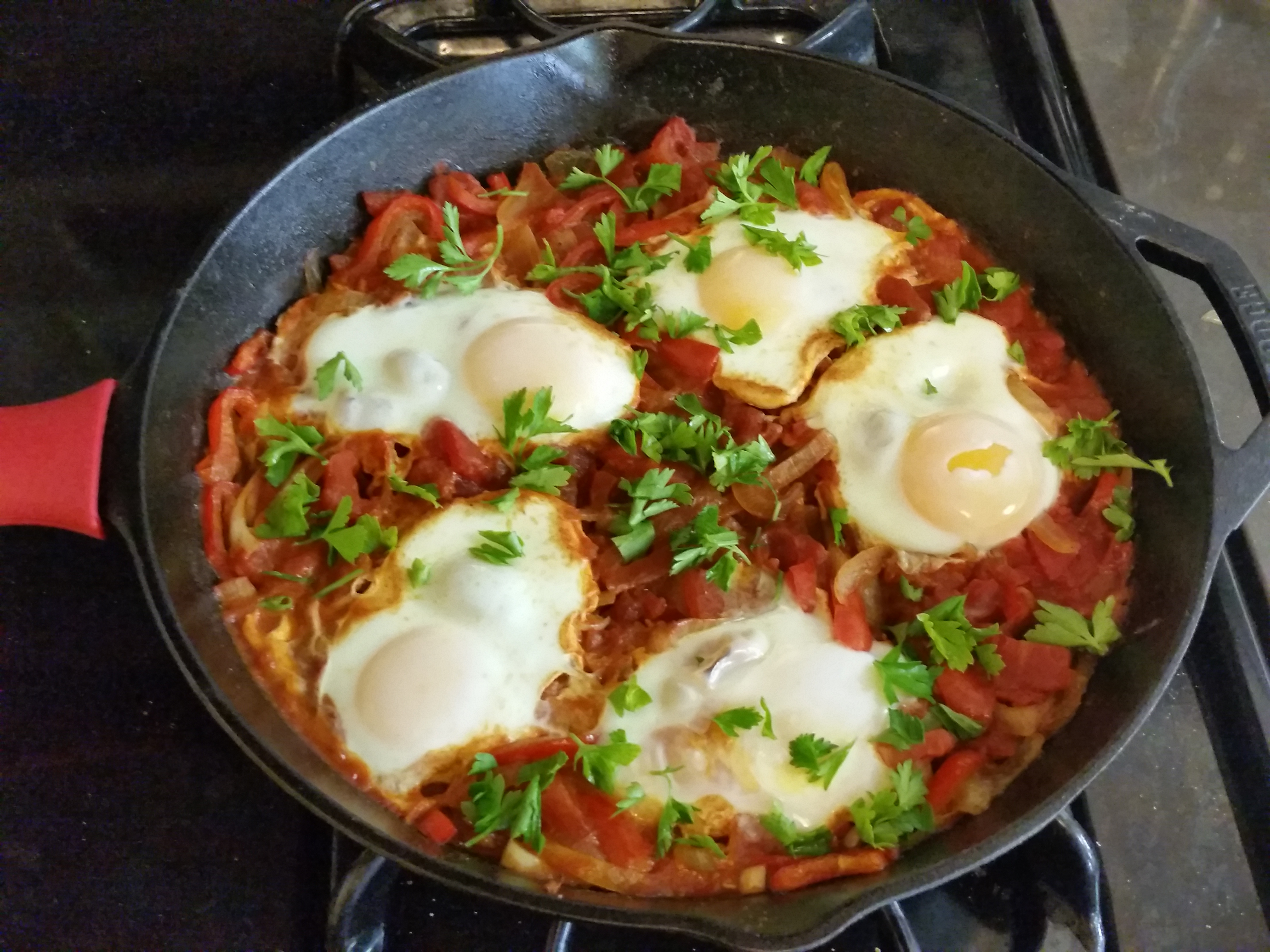 Shakshuka